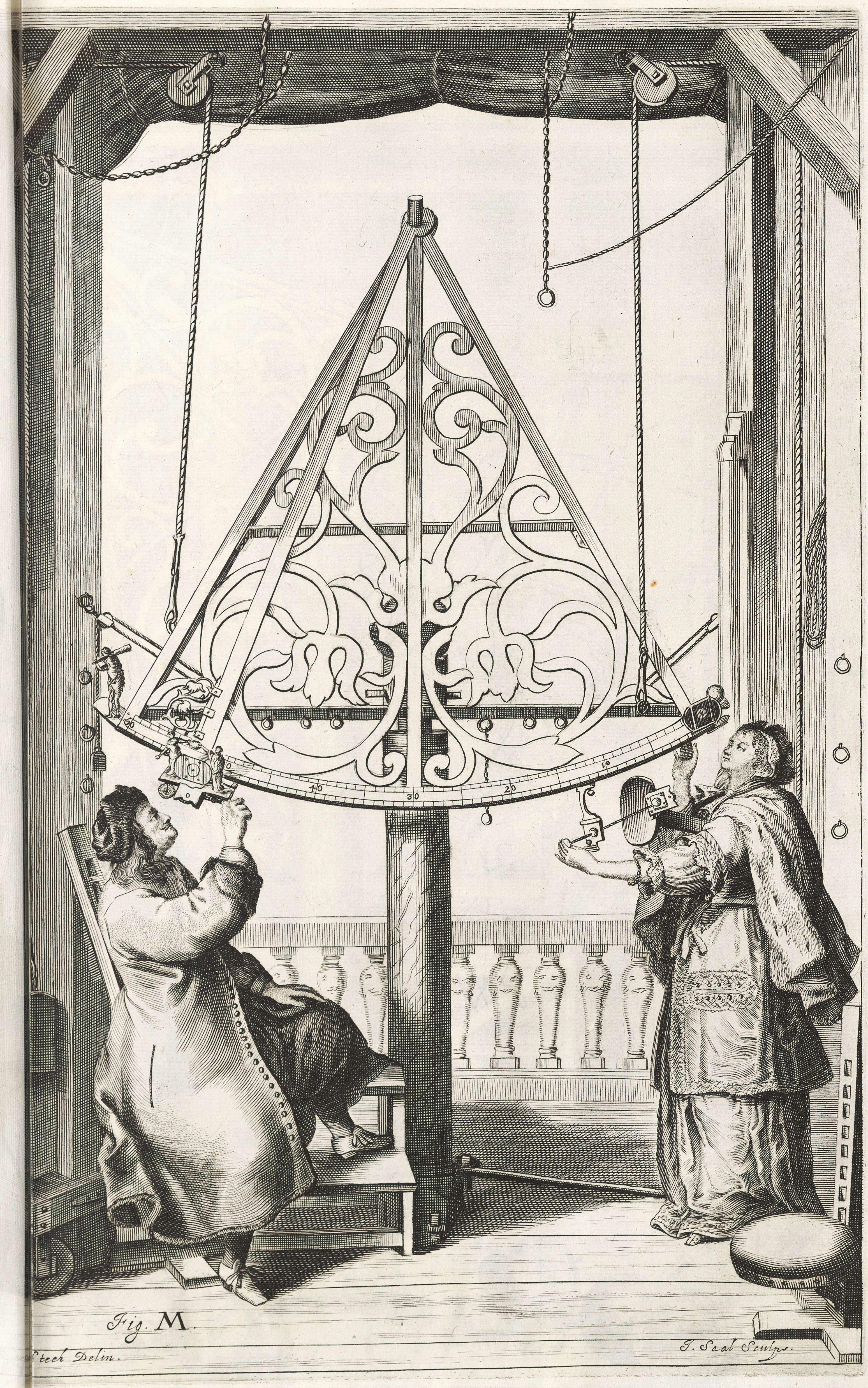 Johannes Hevelius and wife Elisabetha observing the sky with a brass sextant. Engraving from Johannes Hevelius's "Machinae Coelestis: Pars Prior", (1673), fig. M, facing p. 222.